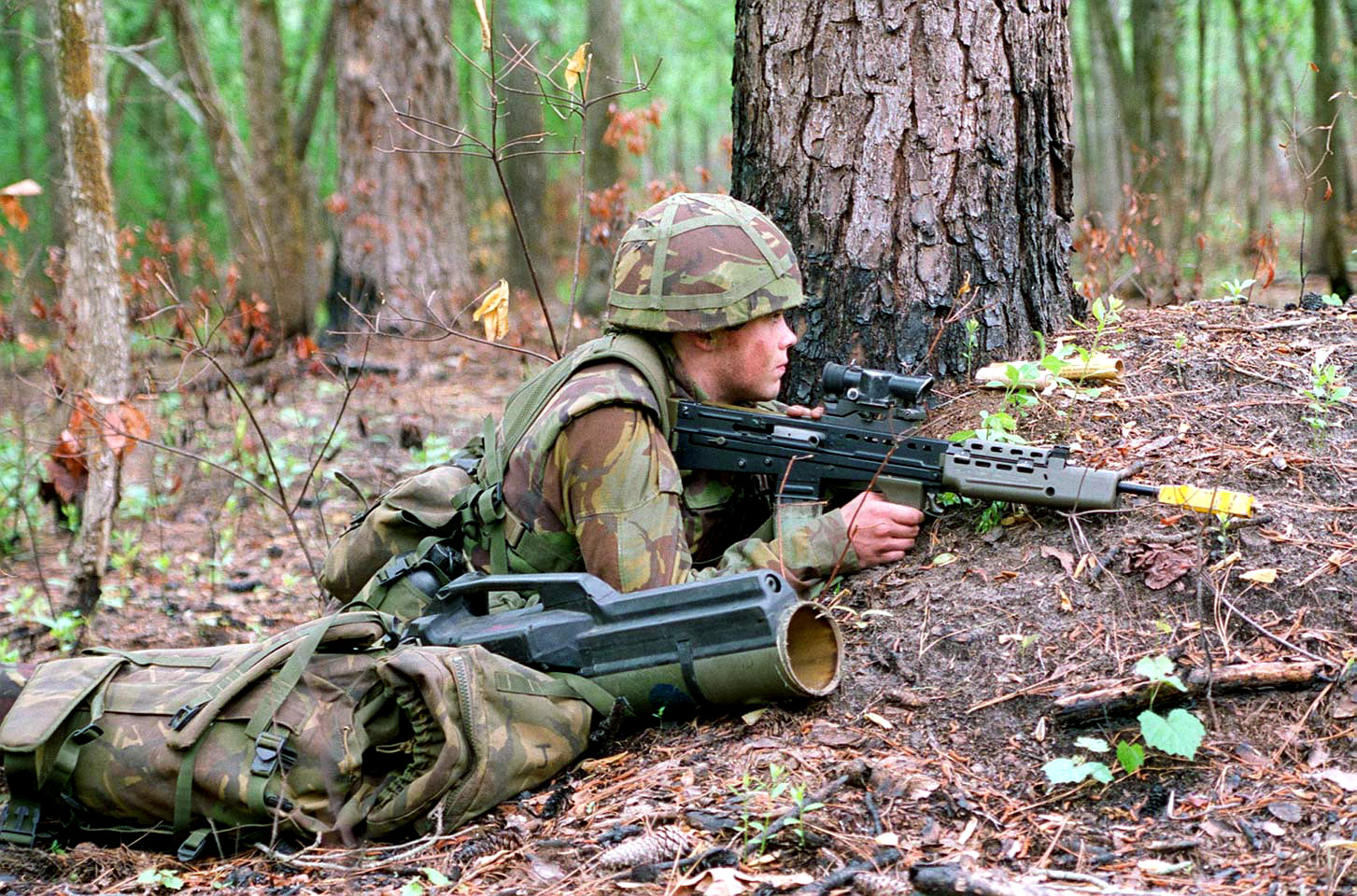 A British Soldier, positioned on the ground, prepares to site his weapon during a firefight with aggressors.